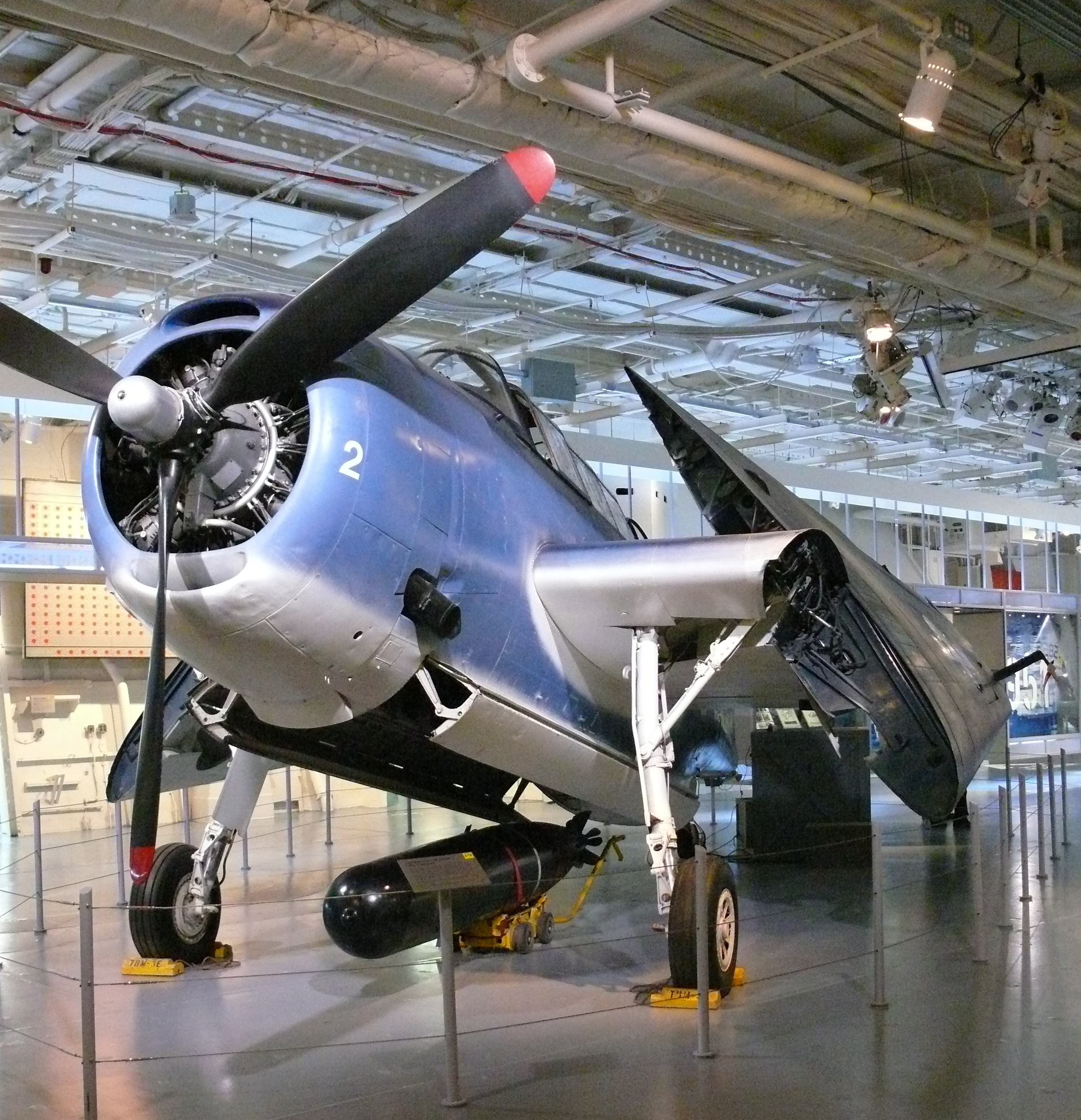 Grumman/Eastern Aircraft TBM-3E Avenger in the Intrepid Sea-Air-Space Museum. The Grumman TBF Avenger (designated TBM for aircraft manufactured by General Motors) was a torpedo bomber developed initially for the United States Navy and Marine Corps, and eventually used by several air or naval arms around the world. It entered U.S. service in 1942, and first saw action during the Battle of Midway.